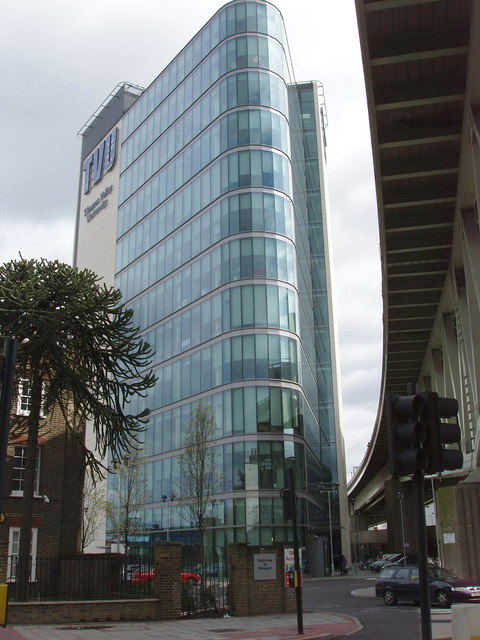 Thames Valley University Paragon campus, building by the M4 This TVU building is very noticeable from the elevated M4 - and very close to it. TVU has some plainer blocks of student accommodation on the site. See TVU Paragon page There are also apartments for sale at the site, .